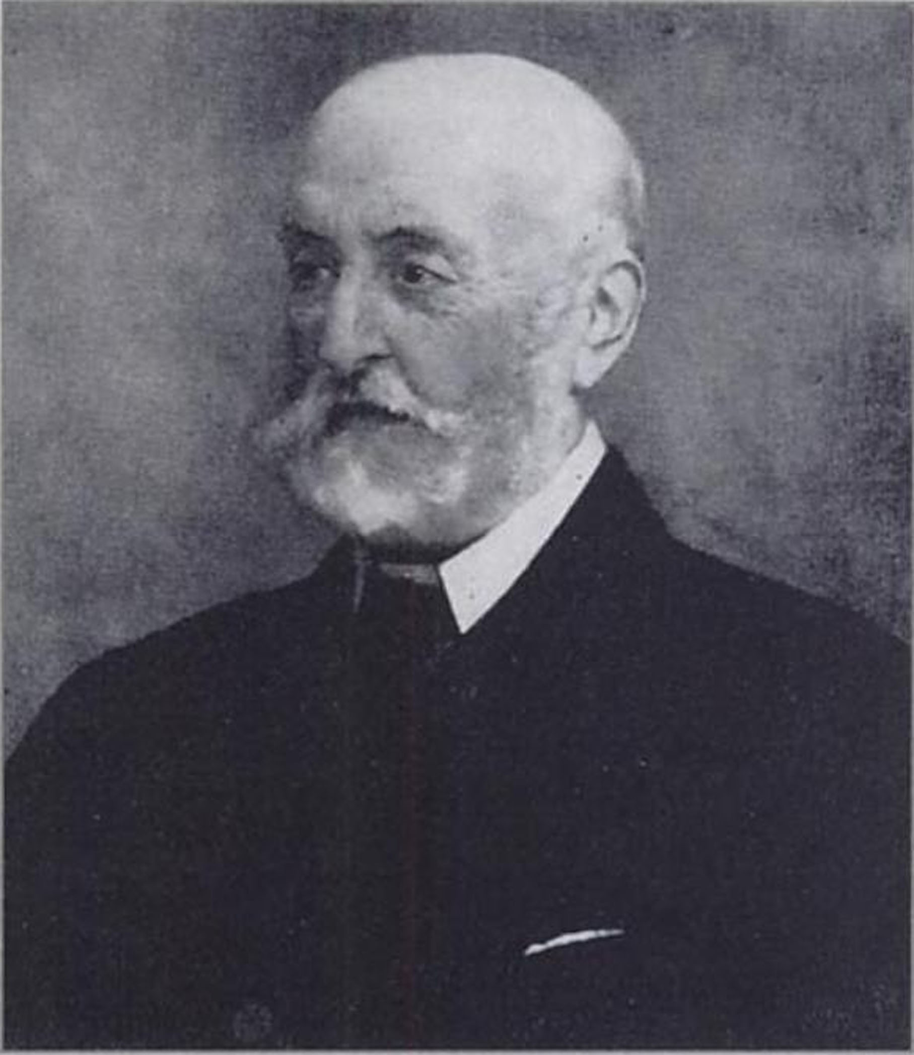 St. George Jackson Mivart (1827-1900)